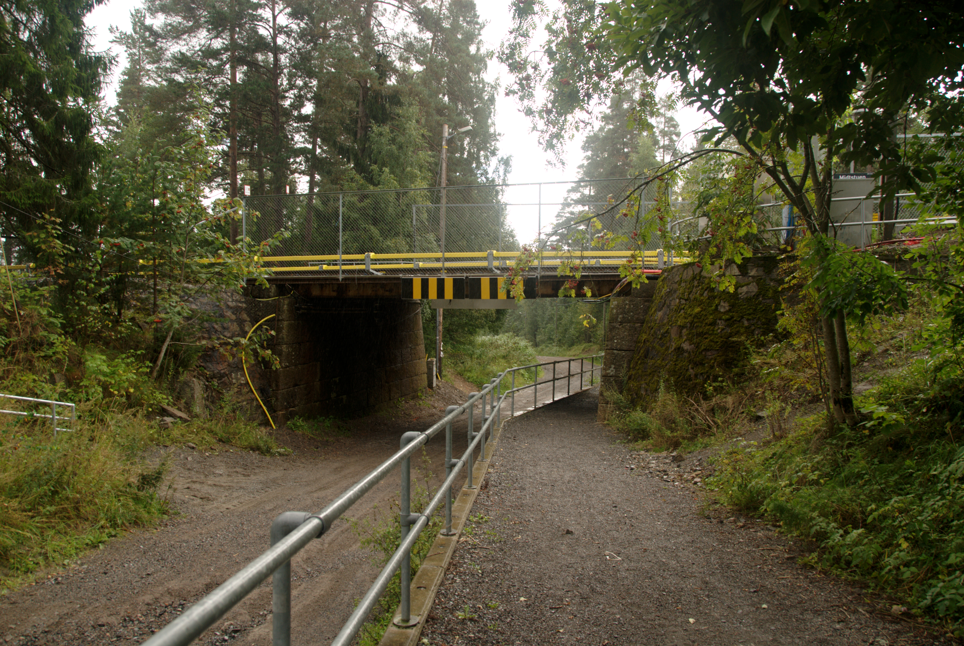 Korketrekkeren passing under the Holmenkollen Line at Midtstuen in Oslo, Norway